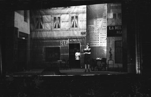 Soprano Pepita Embil (mother of operatic tenor Plácido Domingo) in a production of the zarzuela, La del manojo de Rosas, in San Sebastián, Spain (March 5, 1942)